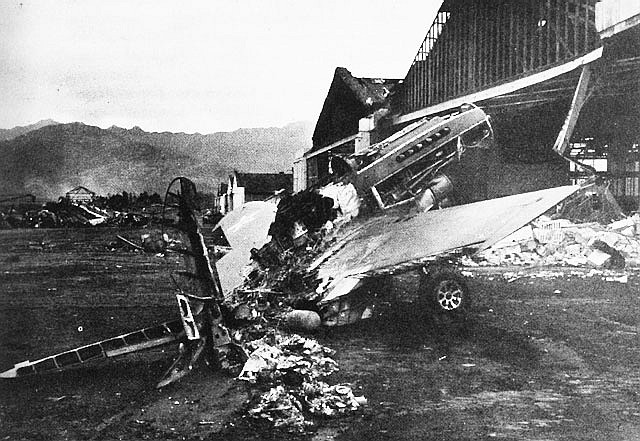 A destroyed Curtiss P-40 at Wheeler Field, Oahu, 1941.